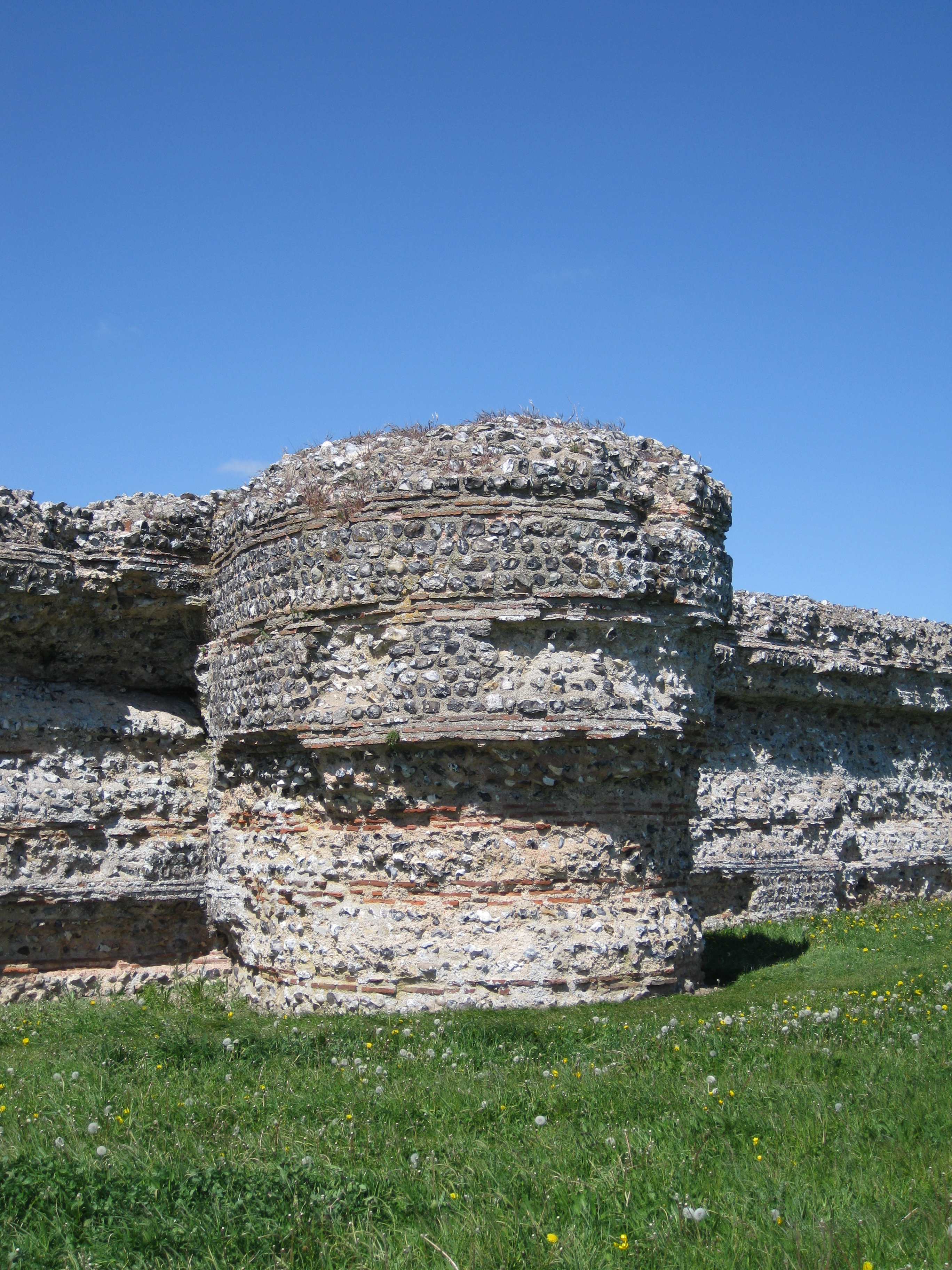 Gariannonum Burgh Castle east wall turret detail